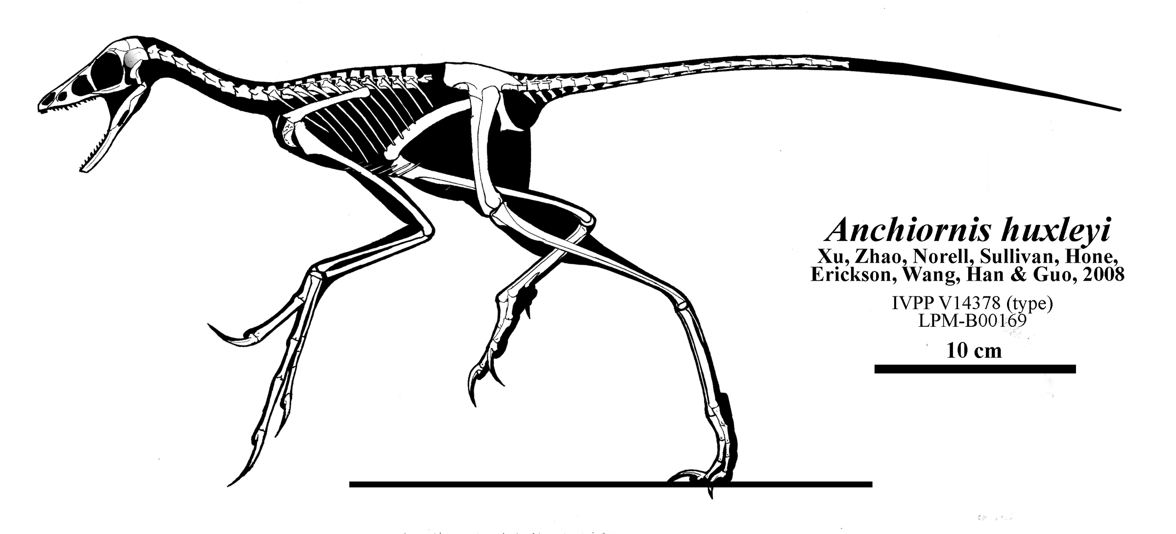 Skeletal reconstruction of Anchiornis huxleyi.